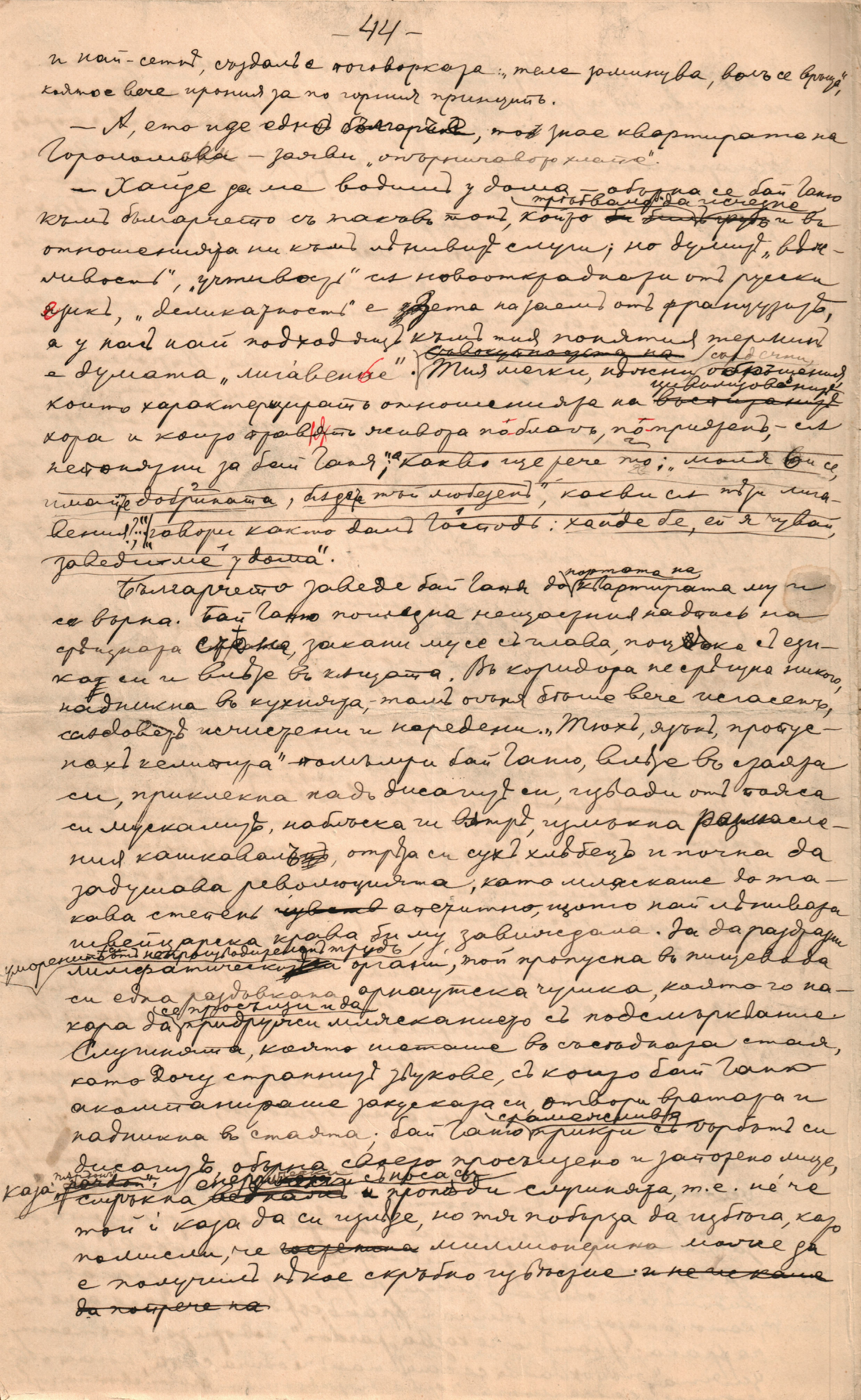 Bay Ganyo goes around Europe, feuilleton by bulgarian writer Aleko Konstantinov. Manuscript, 1894.